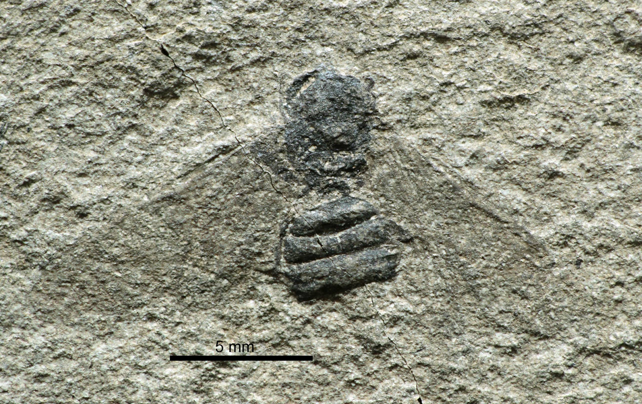 Dorsal view of a Liometopum imhoffii lectotype queen, formerly identified by Oswald Heer as a specimen of Formica imhoffii. Universalmuseum Joanneum Graz specimen UMJ77491. Universalmuseum Joanneum Graz, Styria, Austria. Burdigalian; Radoboj deposits; Radoboj area, Krapinsko-Zagorska, Croatia.